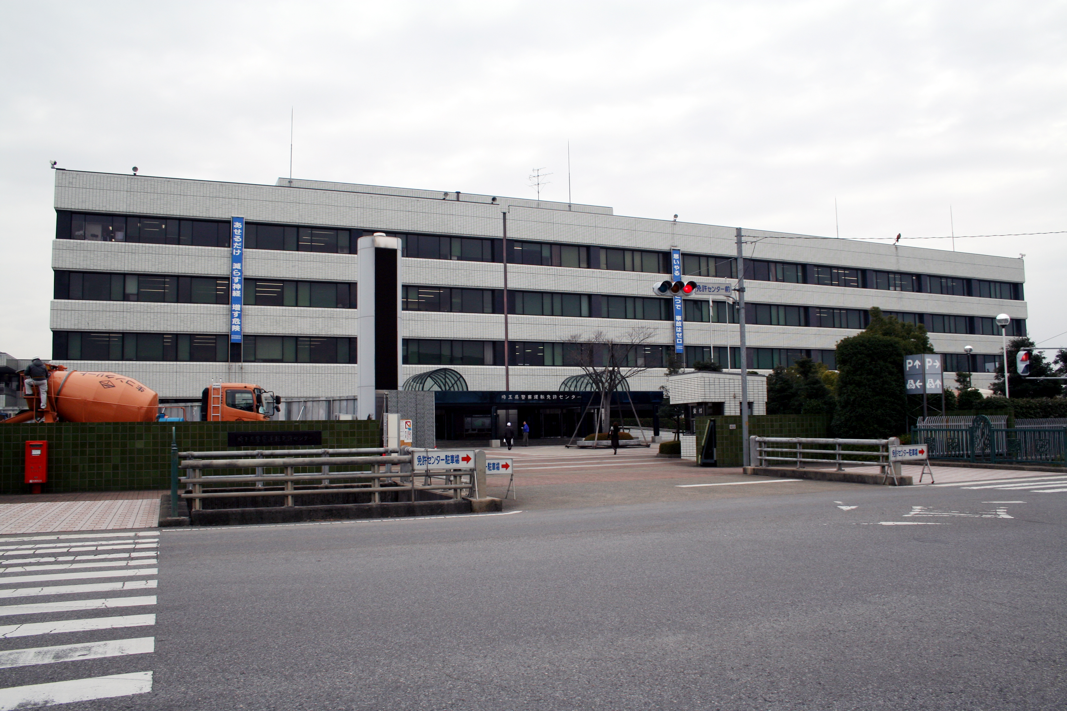 Japanese Saitama prefectural police drivers license centre.